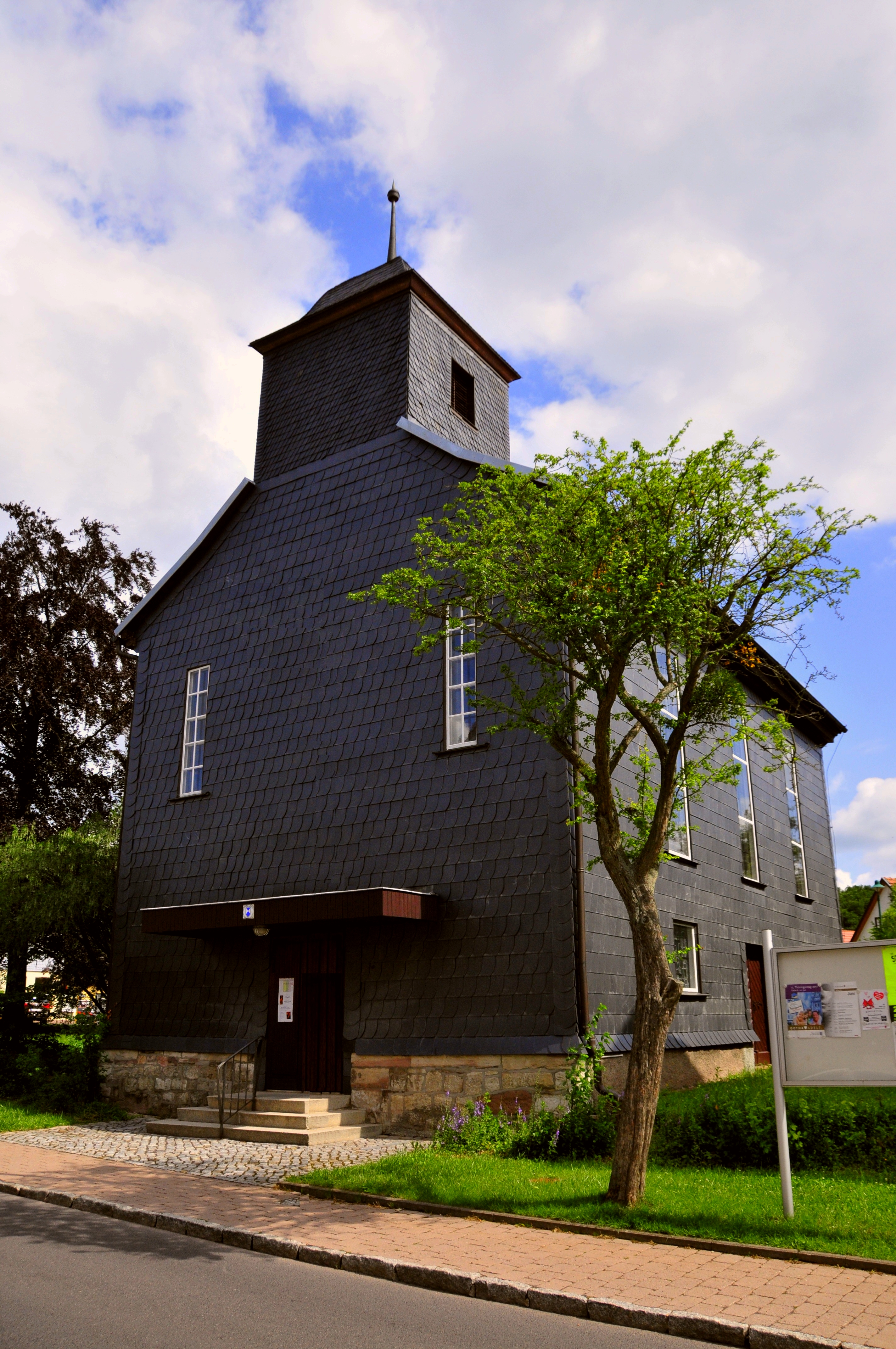 Church in Schnepfenthal, district of Waltershausen